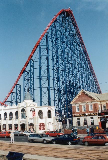 The Big One ! People actually ride this rollercoaster for fun !! It towers over everything for miles apart from Blackpool tower itself. This is the initial drop at the very south end of the park.